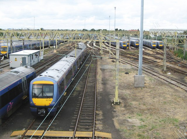 Shoeburyness railway depot It being a Sunday morning massed ranks of c2c trains are parked up on the extensive sidings of Shoeburyness Depot. The train in the foreground is however on the move with unit number 357046 trailing. The main line to London is beyond the trains on the right.